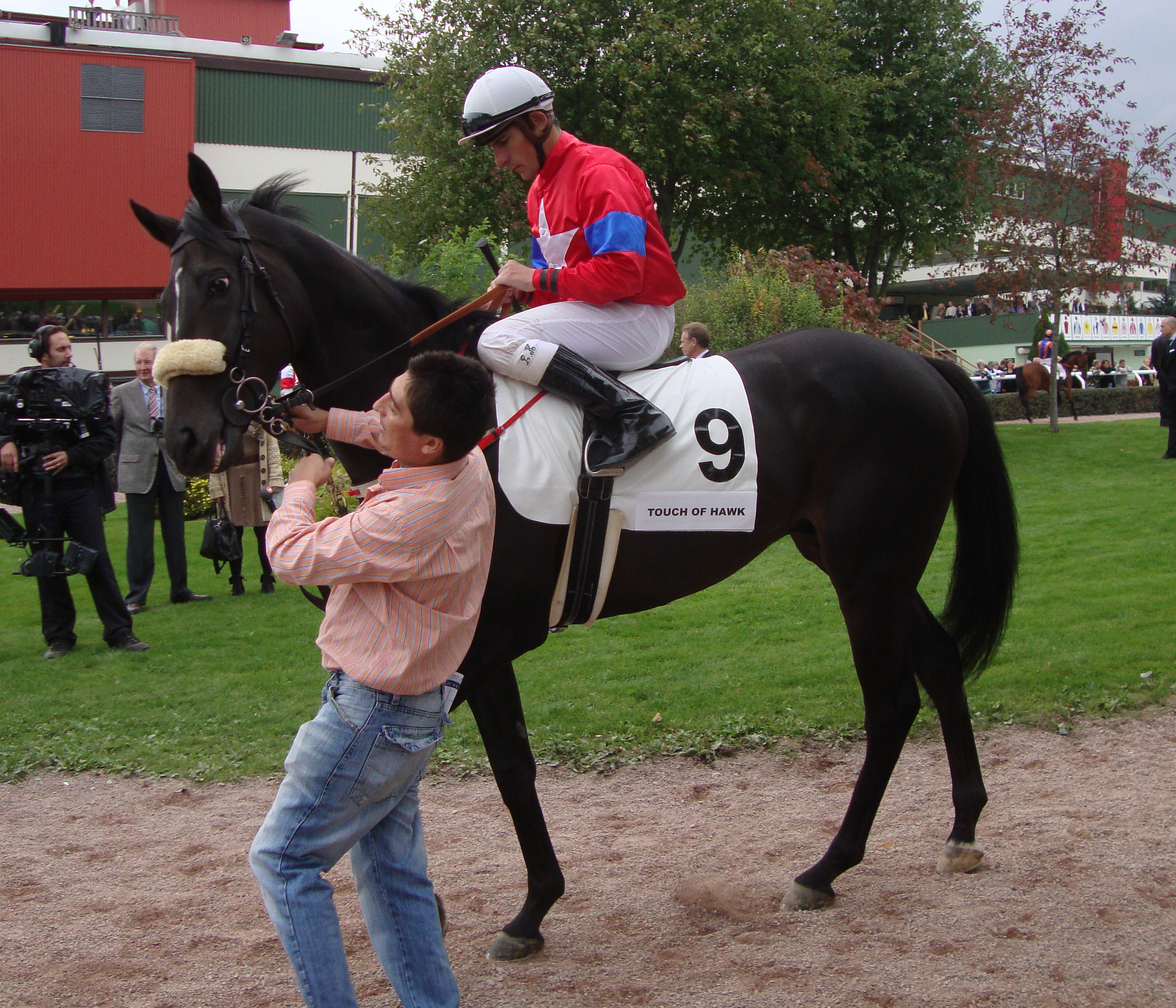 Thoroughbred race horse Touch of Hawk, the winner of Stockholm Cup 2010, shortly before the race.